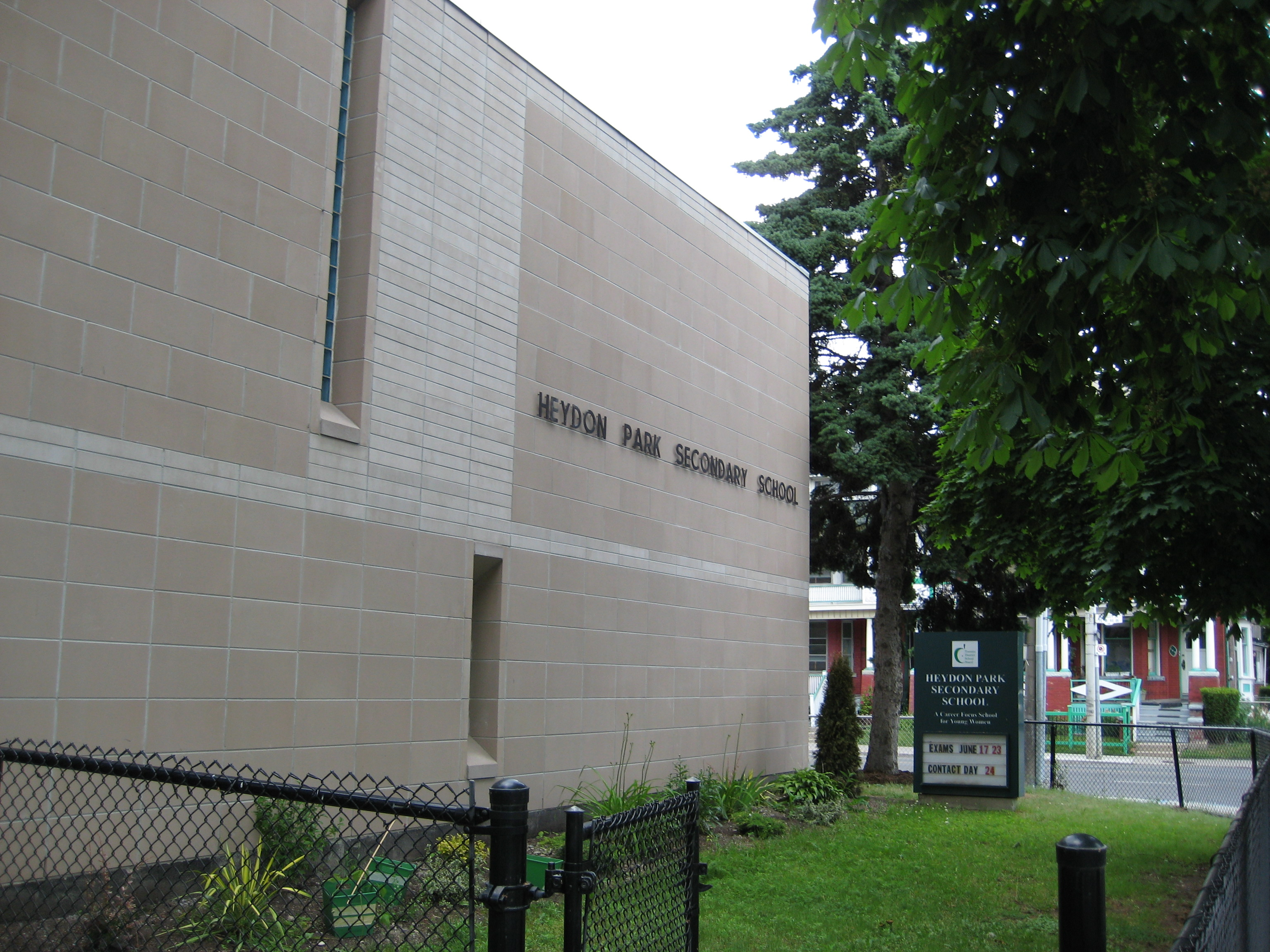 Heydon Park Secondary School, Toronto